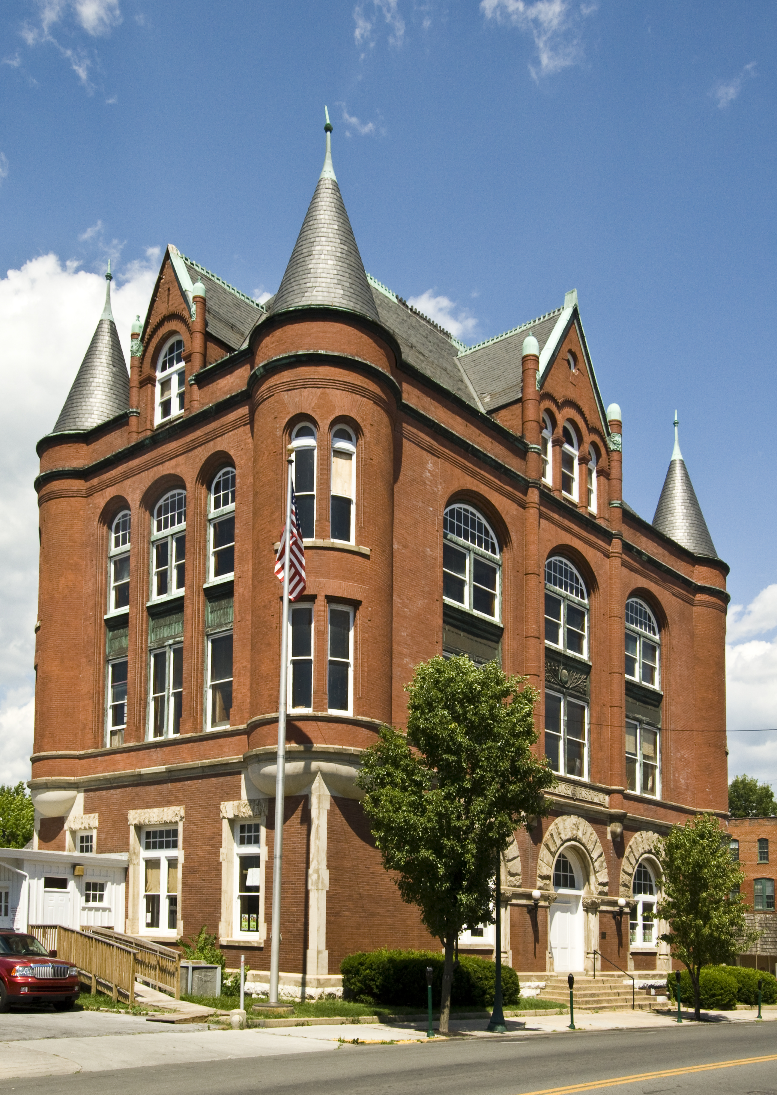 Old Federal Courthouse and Post Office, Martinsburg, West Virginia, USA, later a Federal Aviation Administration records center, now an arts center